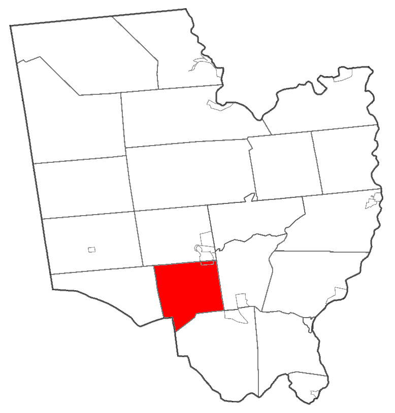 Map of Saratoga County highlighting Ballston